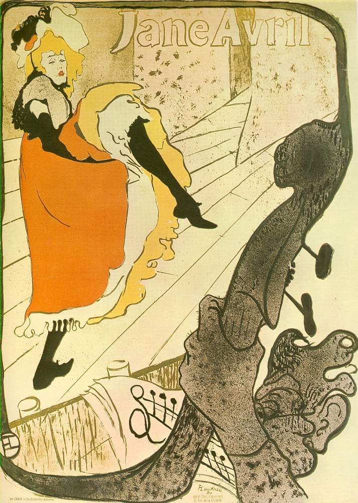 Jane Avril at the Jardin de Paris (poster)